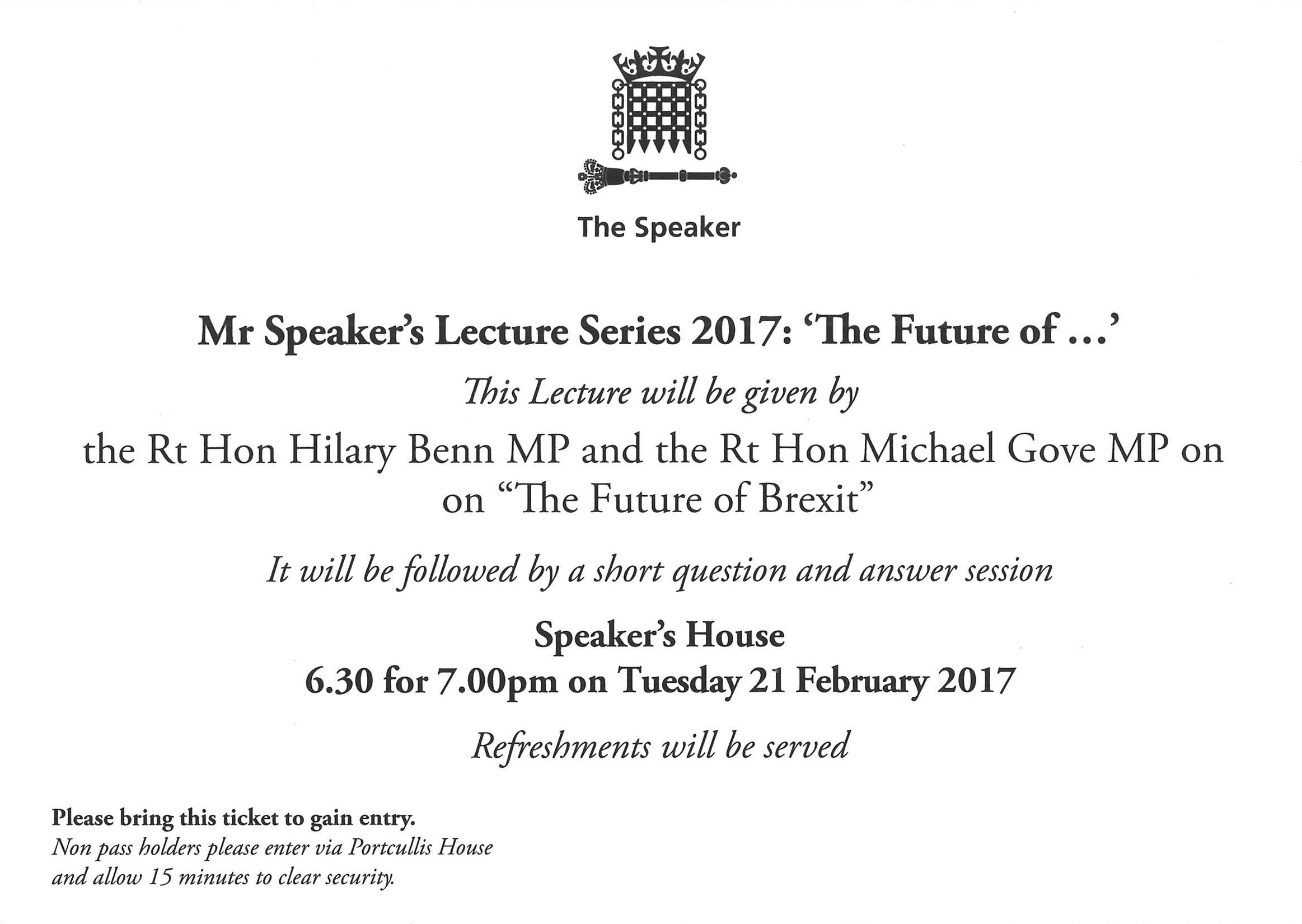 An invitation to the 2017 Speaker's Lecture on The Future of Brexit, given by Hilary Benn and Michael Gove.